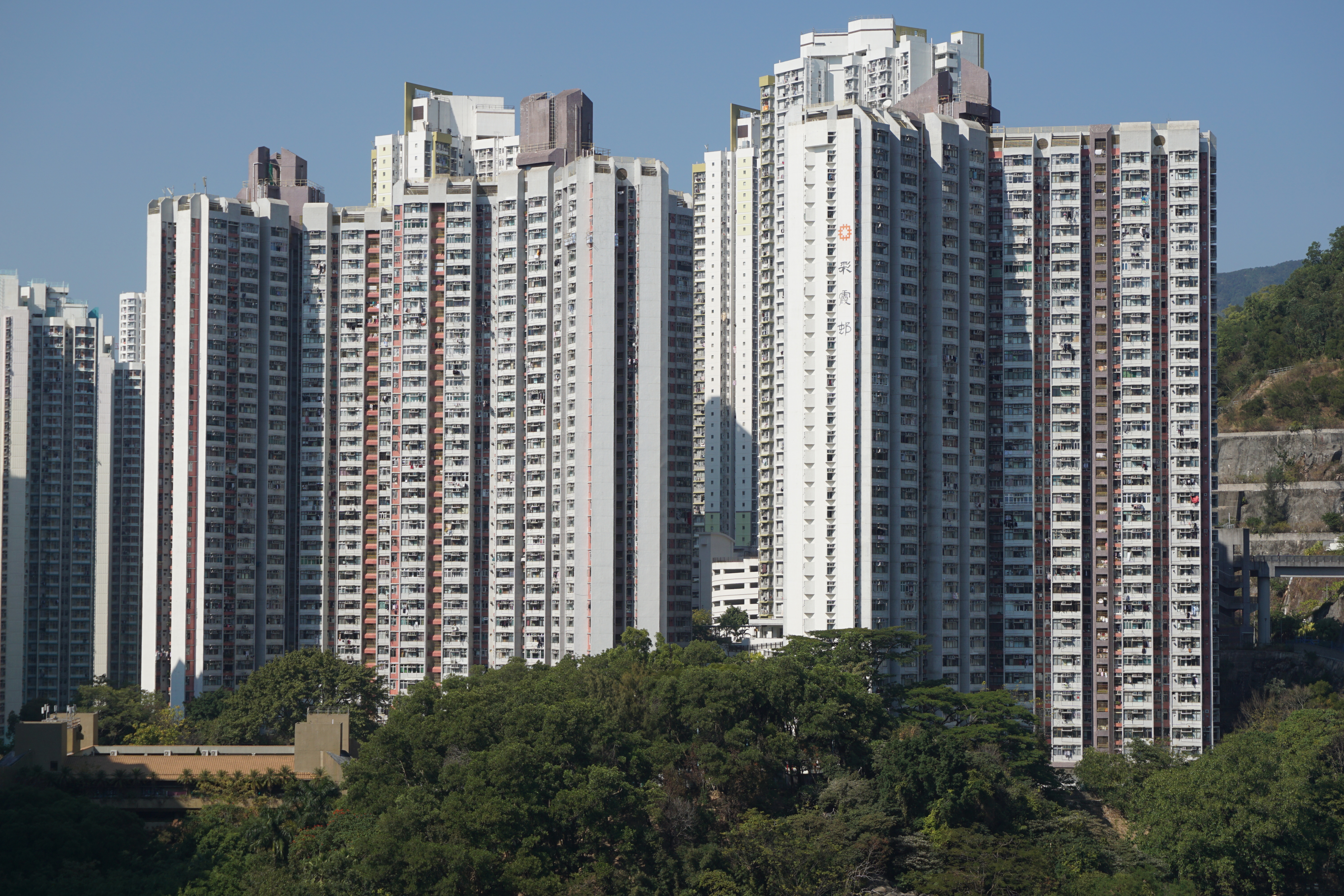 Choi Ha Estate in Kowloon Bay, Hong Kong.